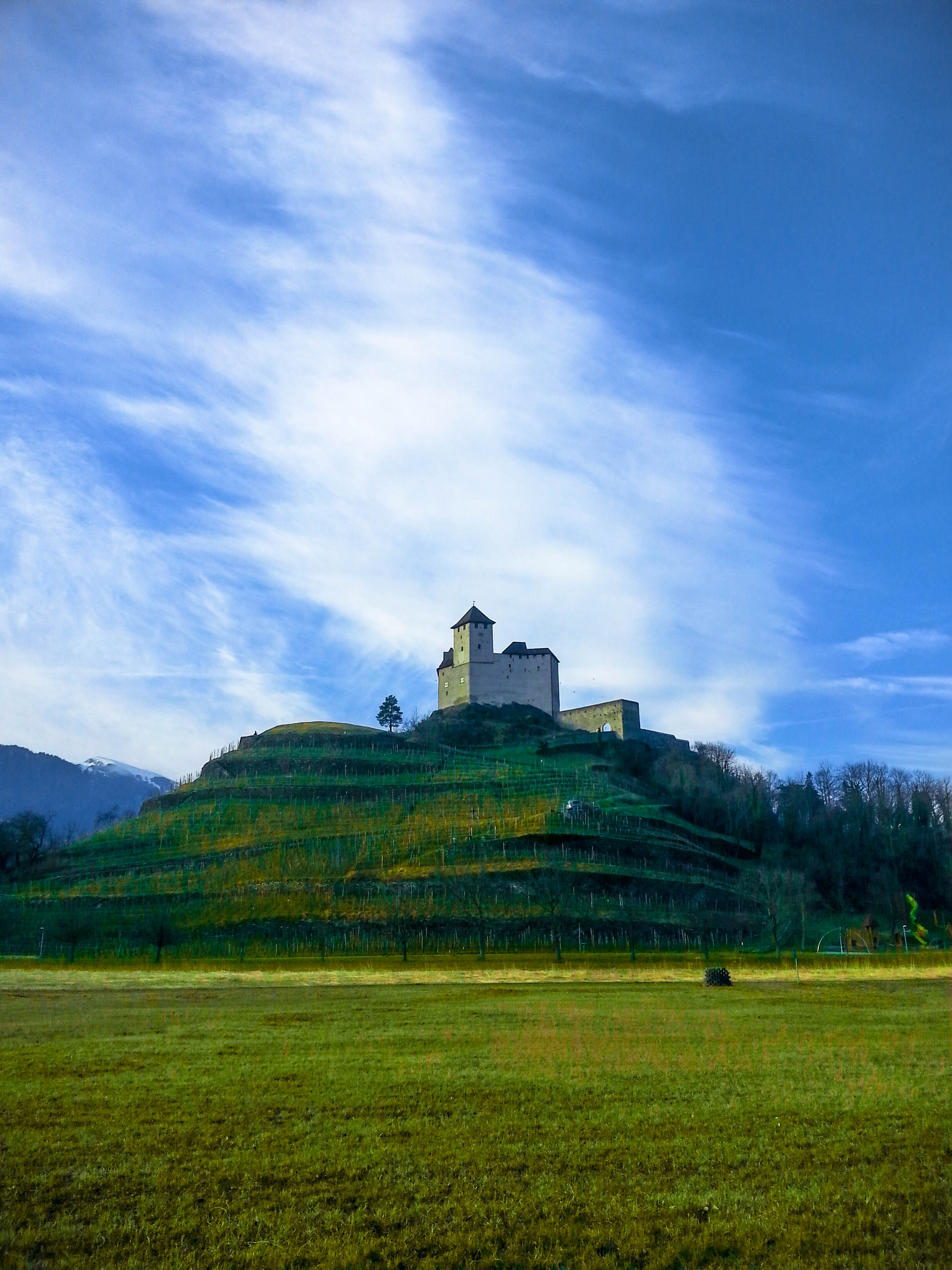 Gutenberg Castle, Balzers, Liechtenstein